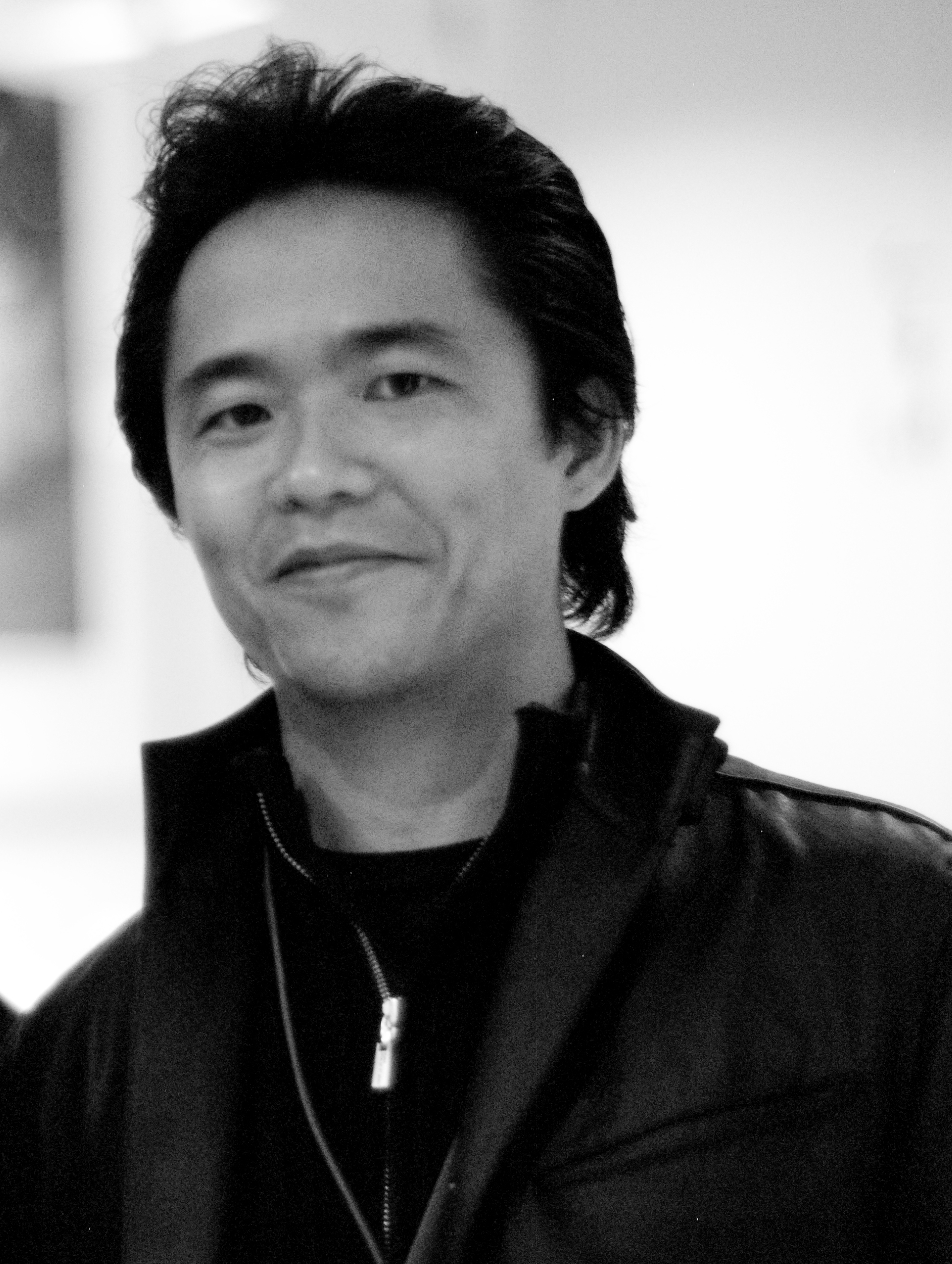 Junichi is a former student of Yoichiro's.